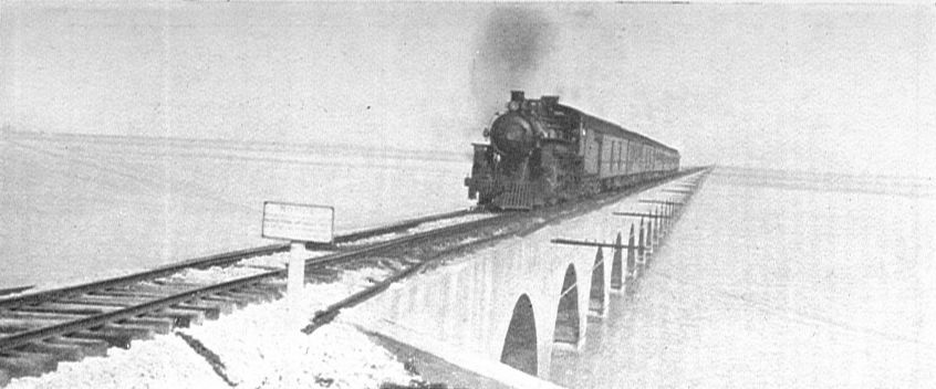 A Railway that "Goes to Sea" Florida East Coast R.R. Express en route to Key West The Florida Overseas Railroad